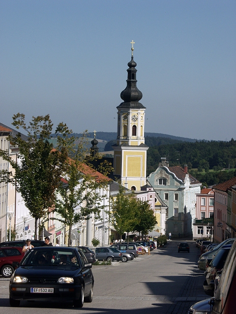 Haag am Hausruck, Center of Town